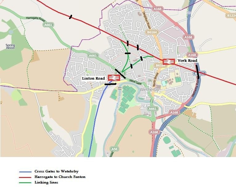 Wetherby. Inset over are the locations of former railway lines, bridges and stations in the town. Map taken from Open Street Map ( on Thursday the 4th of July 2013.